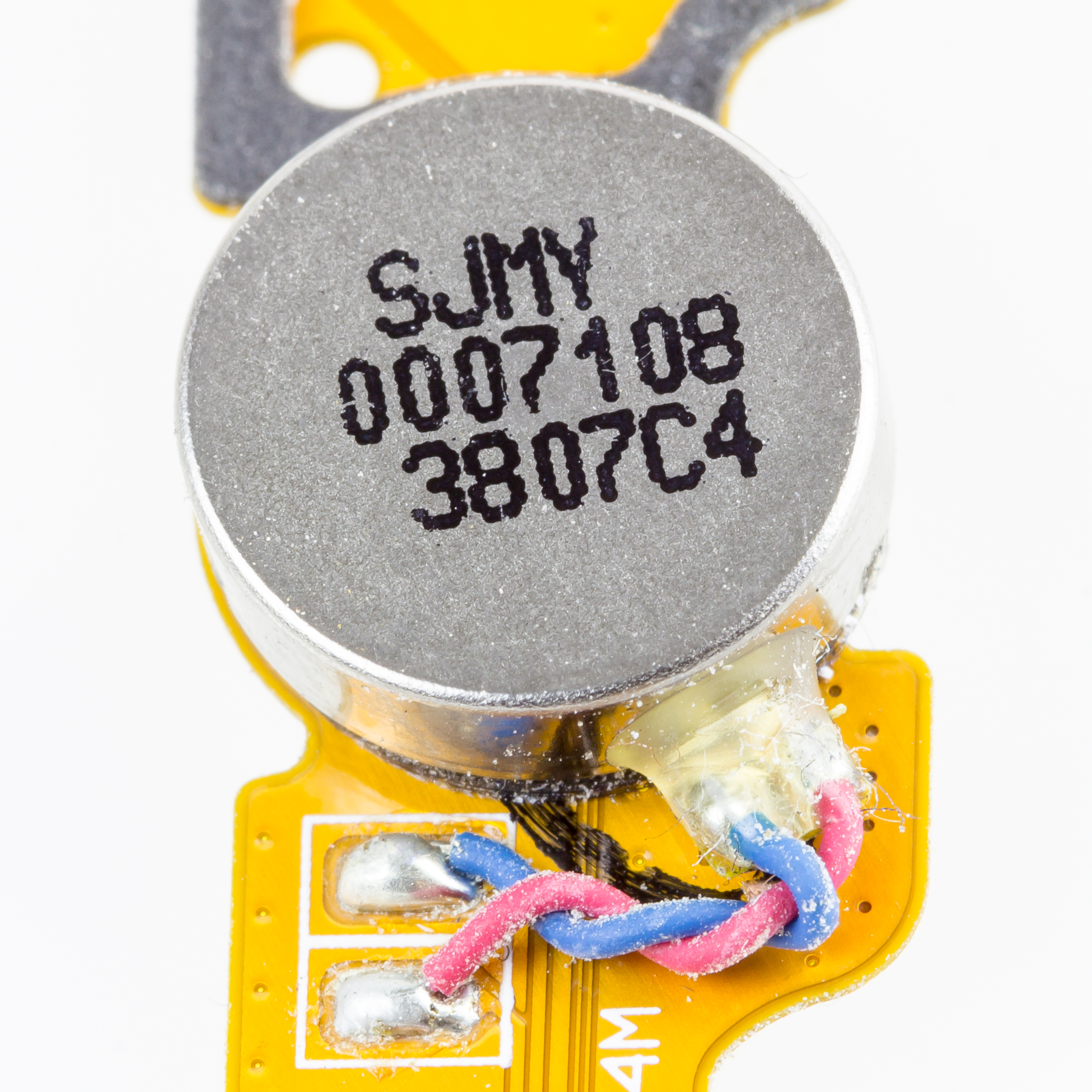 LG P710 Optimus L7 II - Vibramotor SJMY0007108